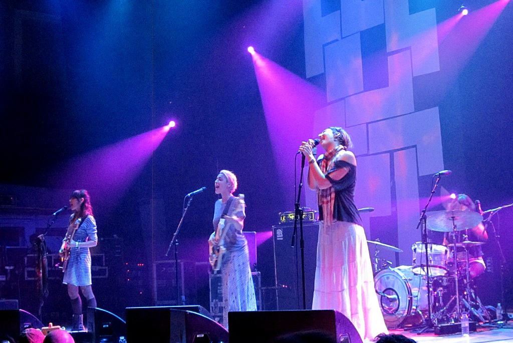 Warpaint, DeMontfort Hall, Leicester